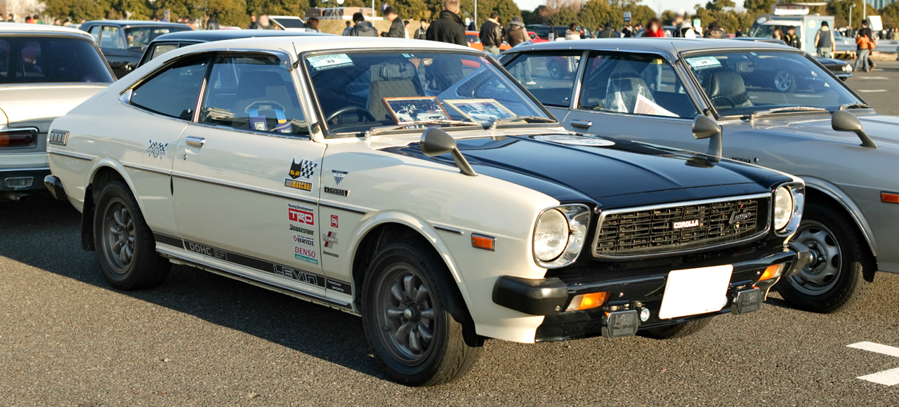 Toyota Corolla 1600GT Coupe ( TE51 )